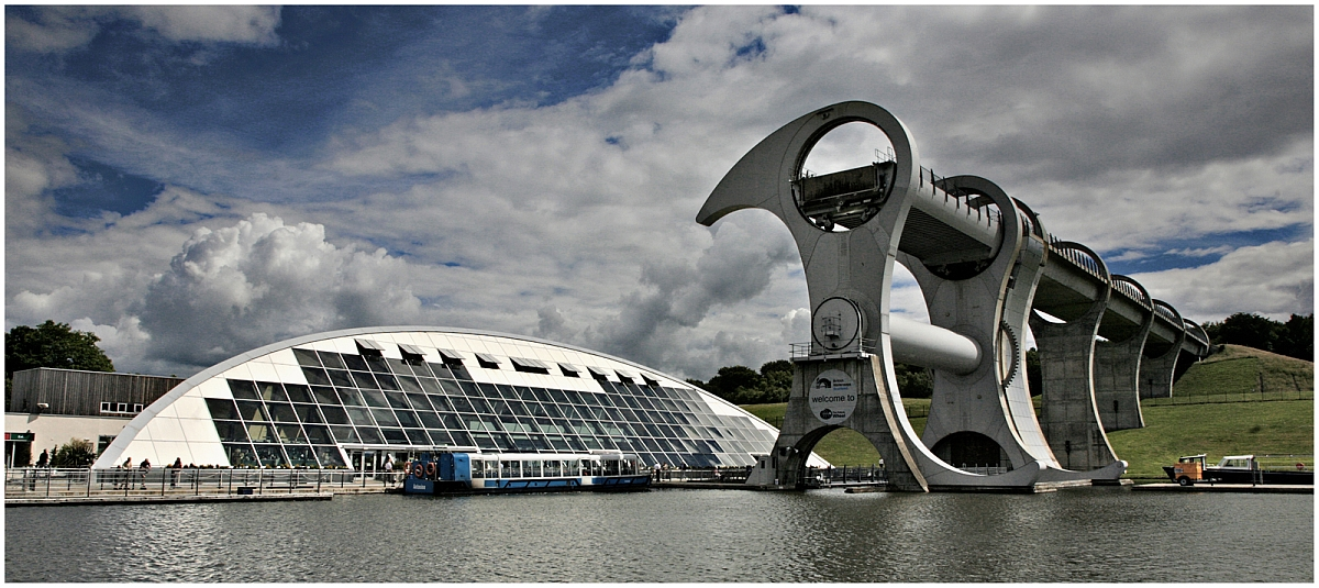 Scotland, Falkirk Wheel